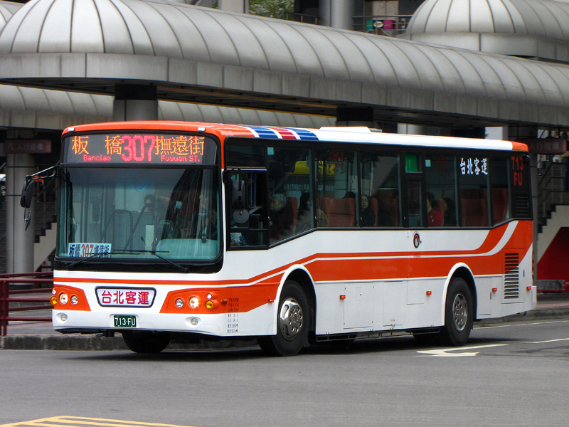 713-FU of Taipei Bus